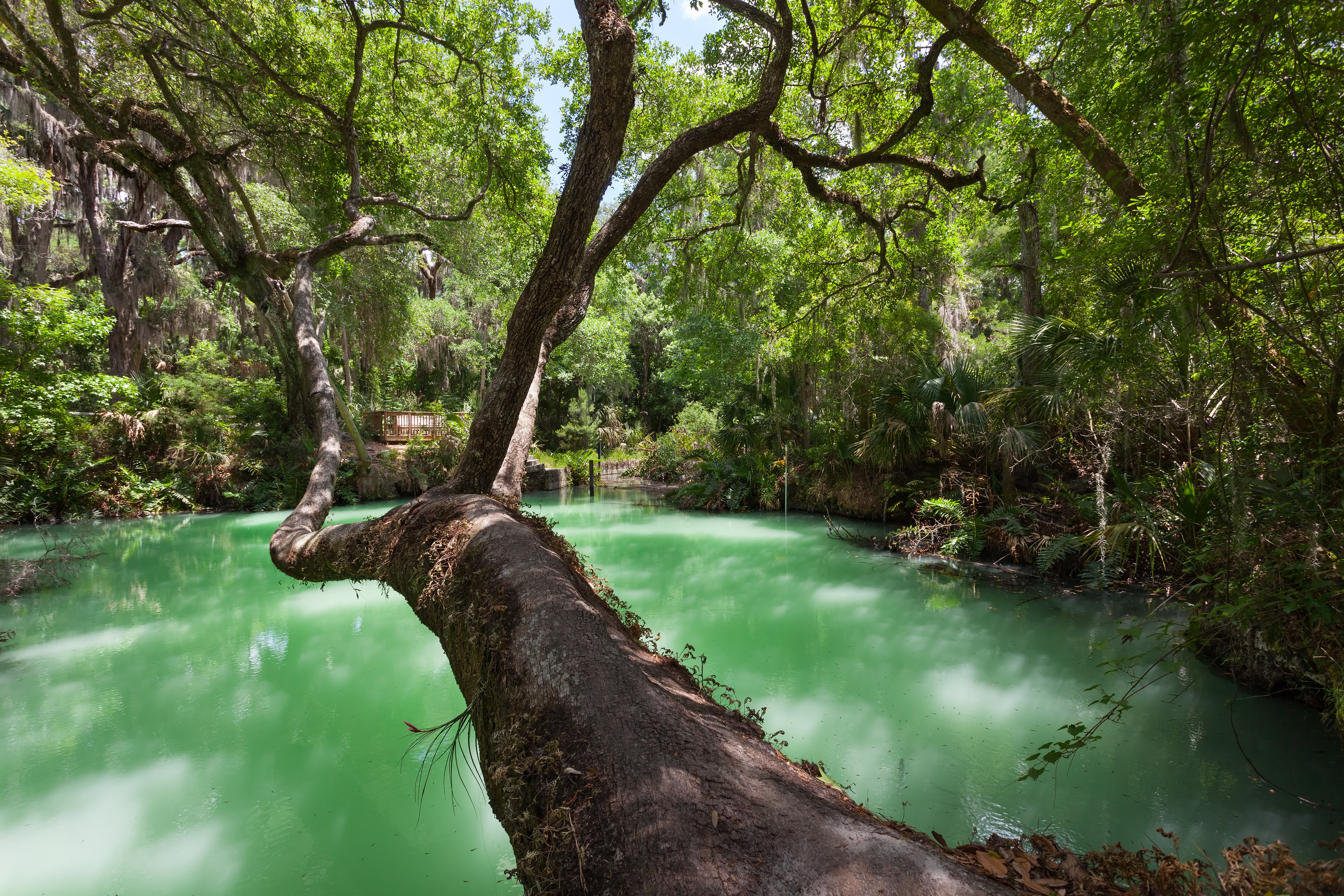 Green Springs, Enterprise, Florida. View from the west bank looking toward the east.